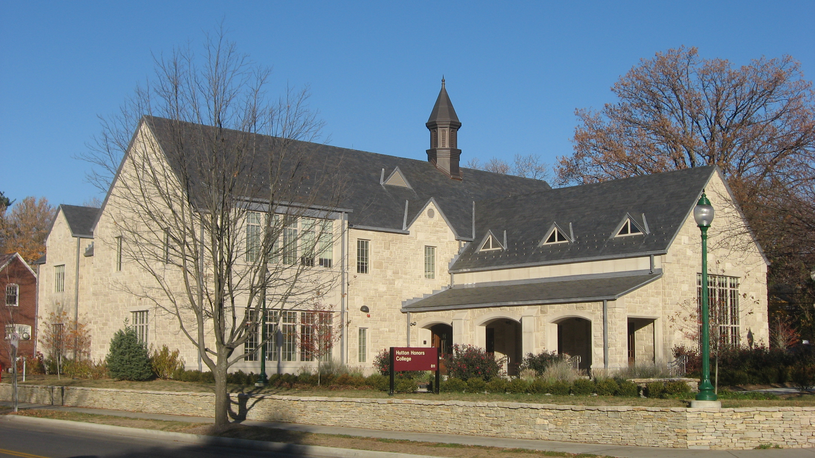 Front of the Hutton Honors College (formerly the Delta Zeta sorority house), located at 809-815 E. Seventh Street in Bloomington, Indiana, United States. Built in 1925, it is a part of the University Courts Historic District, a historic district that is listed on the National Register of Historic Places.